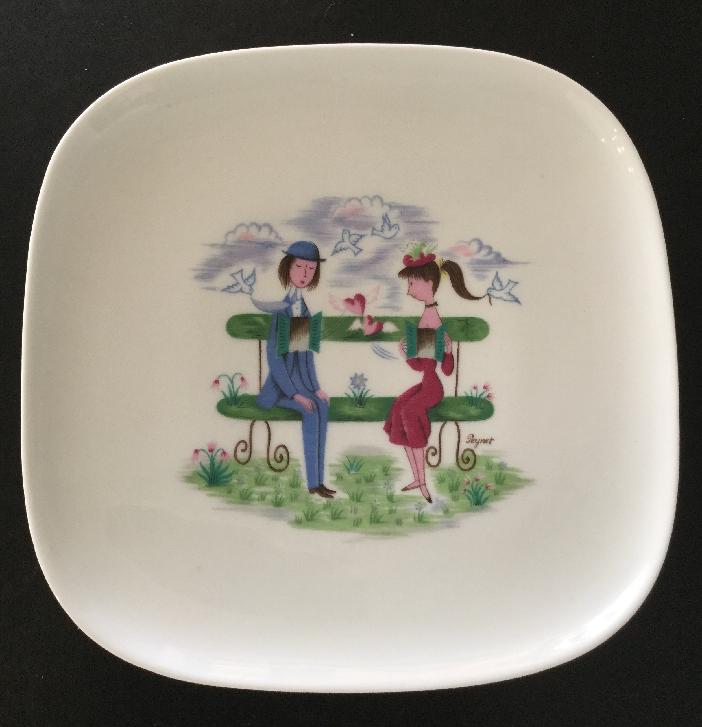 Rosenthal (company) porcelain plate with design by Raymond Peynet